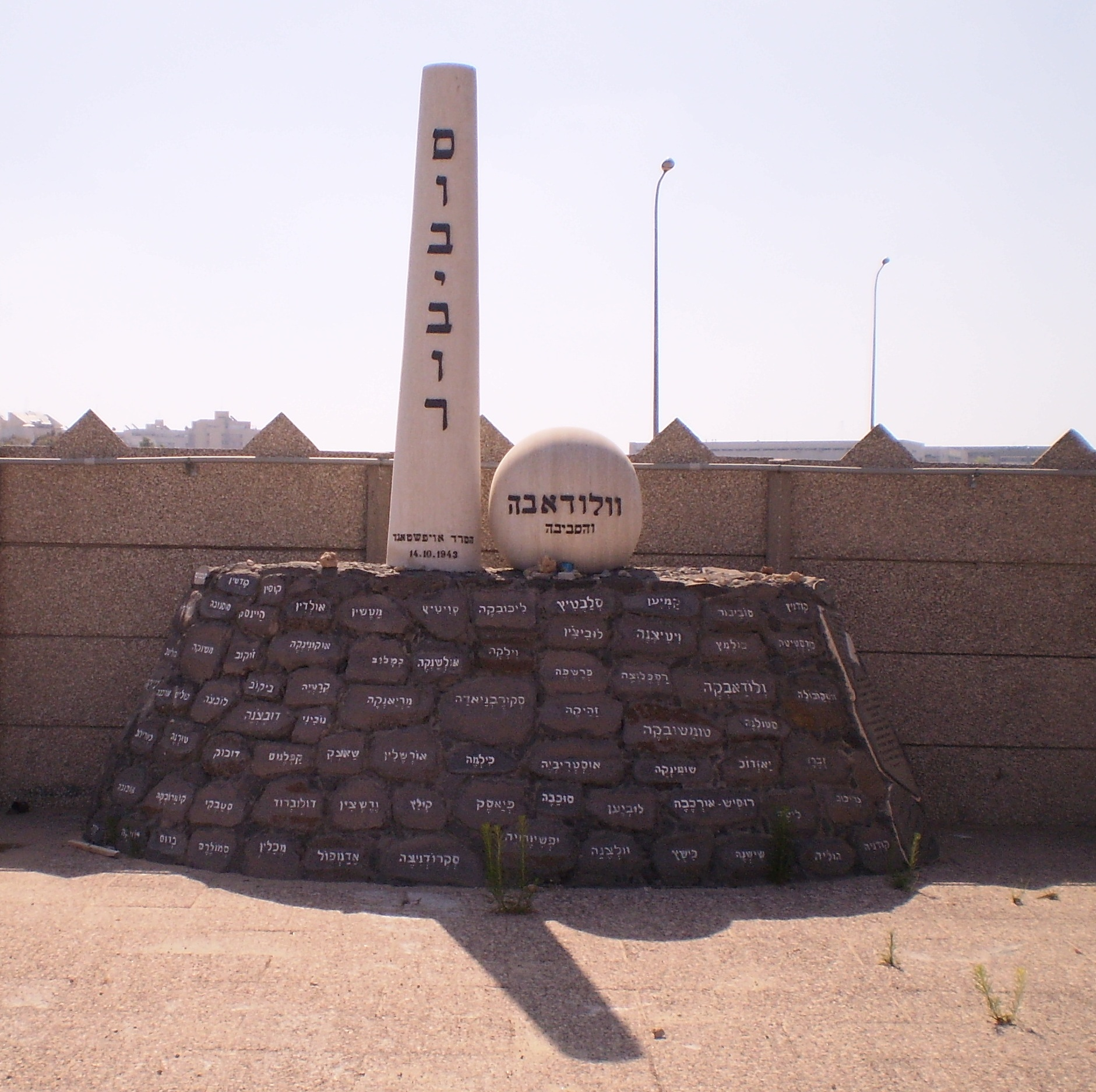 Sobibor holocaust memorial at Holon Cemetery